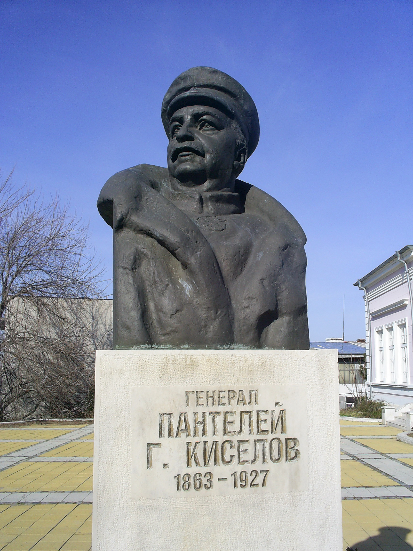 Monument of Bulgarian general Panteley Kiselov, who liberated South Dobrudja during thr Balkan war